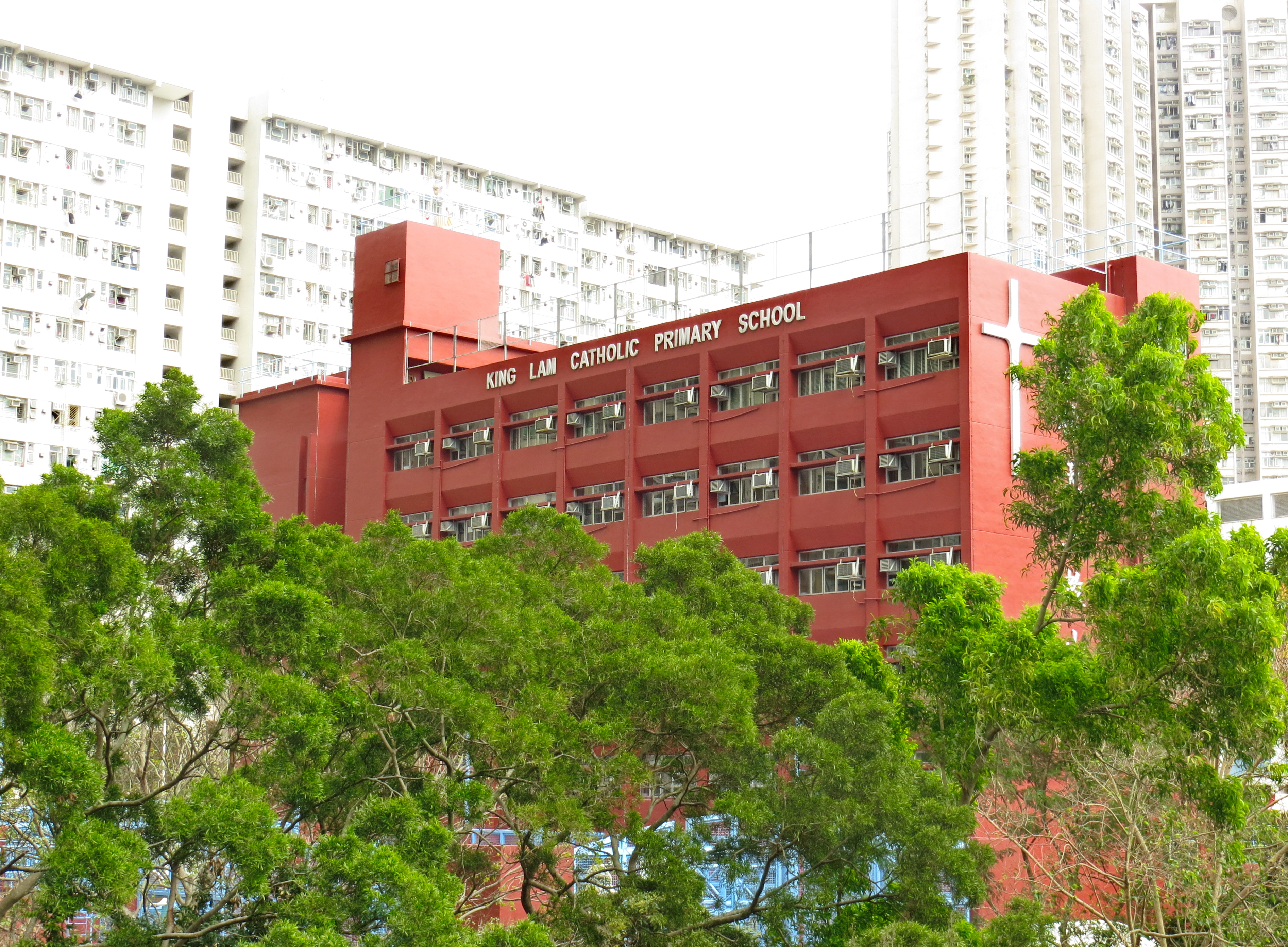 King Lam Catholic Primary School, Hong Kong.